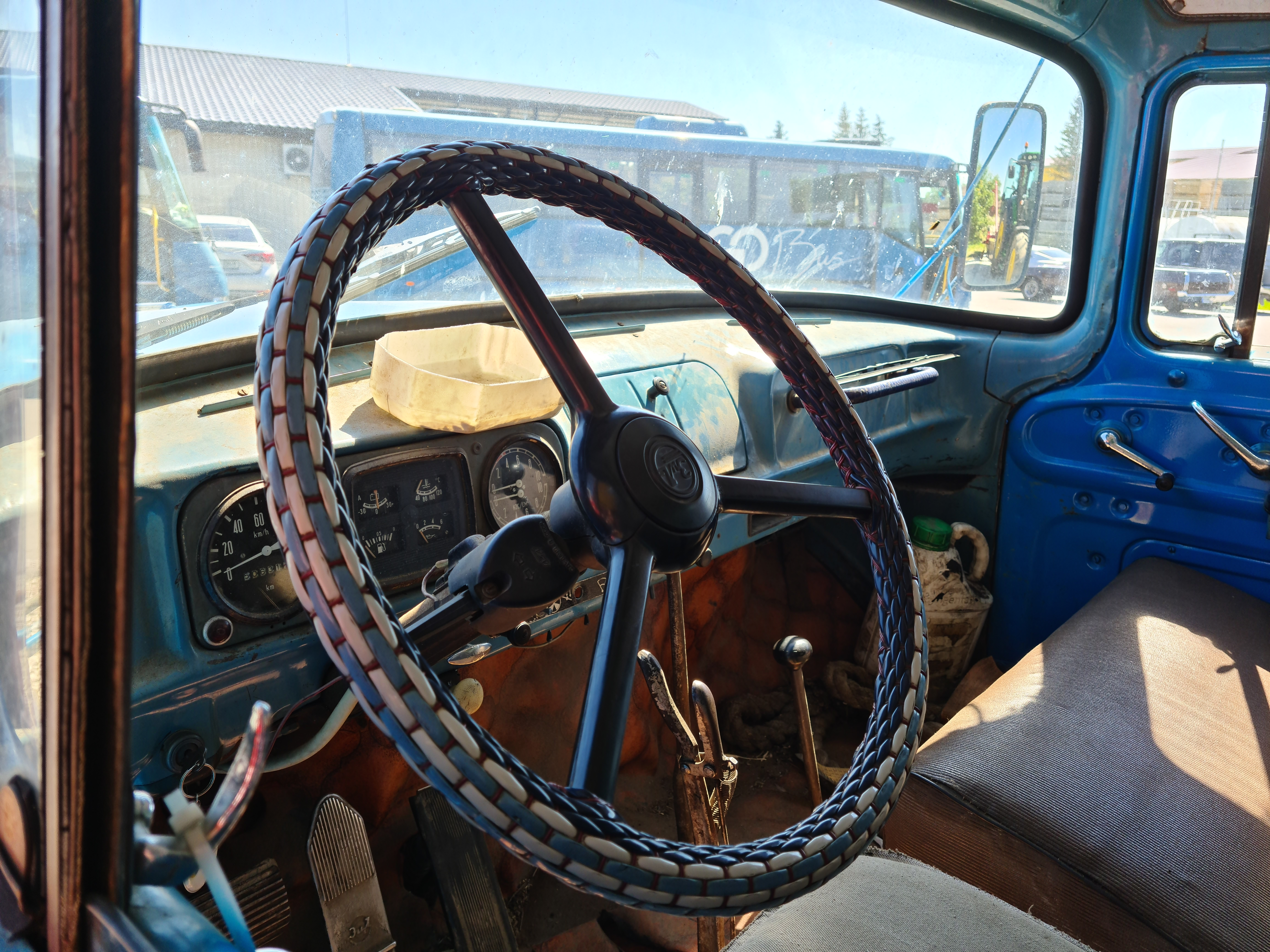 Close up of a ZIL-130 cockpit.